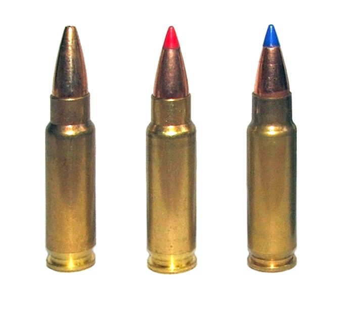 Civilian legal 5.7x28 FN cartridge lineup. Left to right: SS195LF, SS196SR, SS197SR